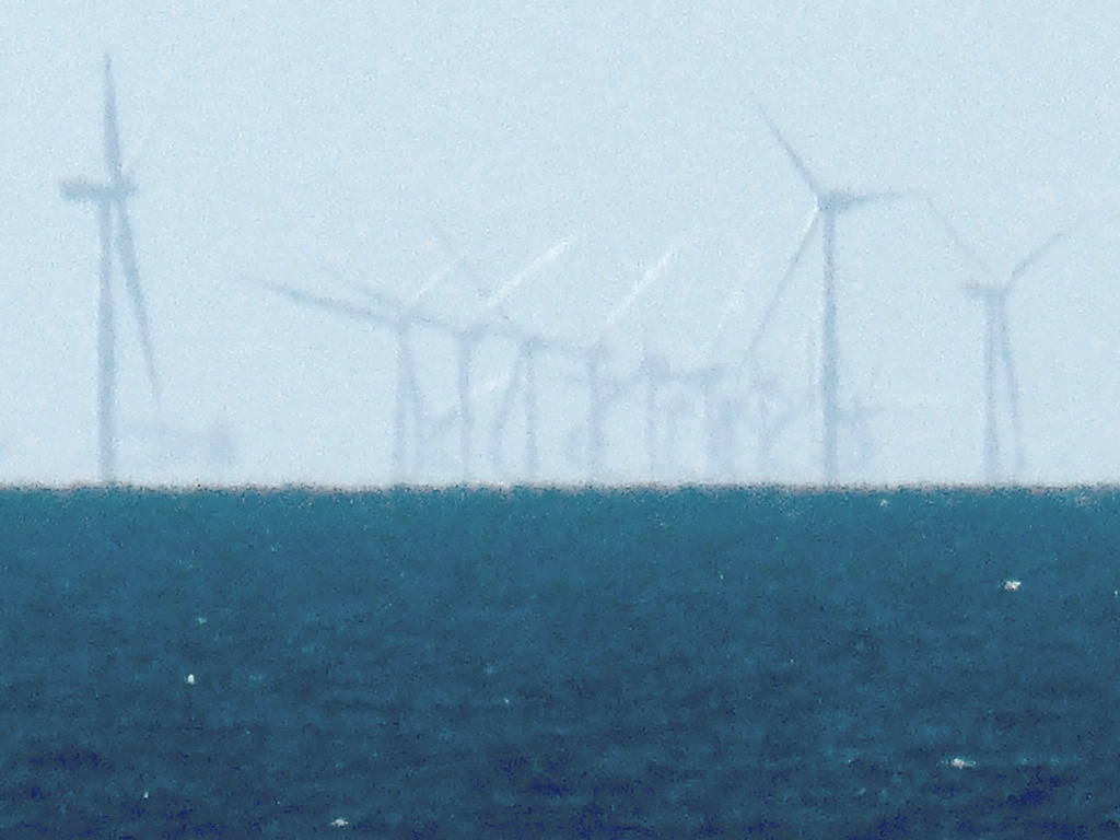 The Duddon Sands West Offshore Wind Farm. I suppose these wind dynamos are going to be part of the normal seascape from now on. Uploader's note: Photo was apparently taken from the seafront at Blackpool.